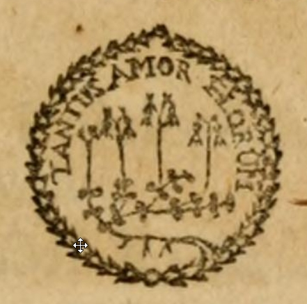 Vignette with Linnaea borealis from the title page of the first edition of 'Philosophy of botany' by Carl Linnaeus (1751)